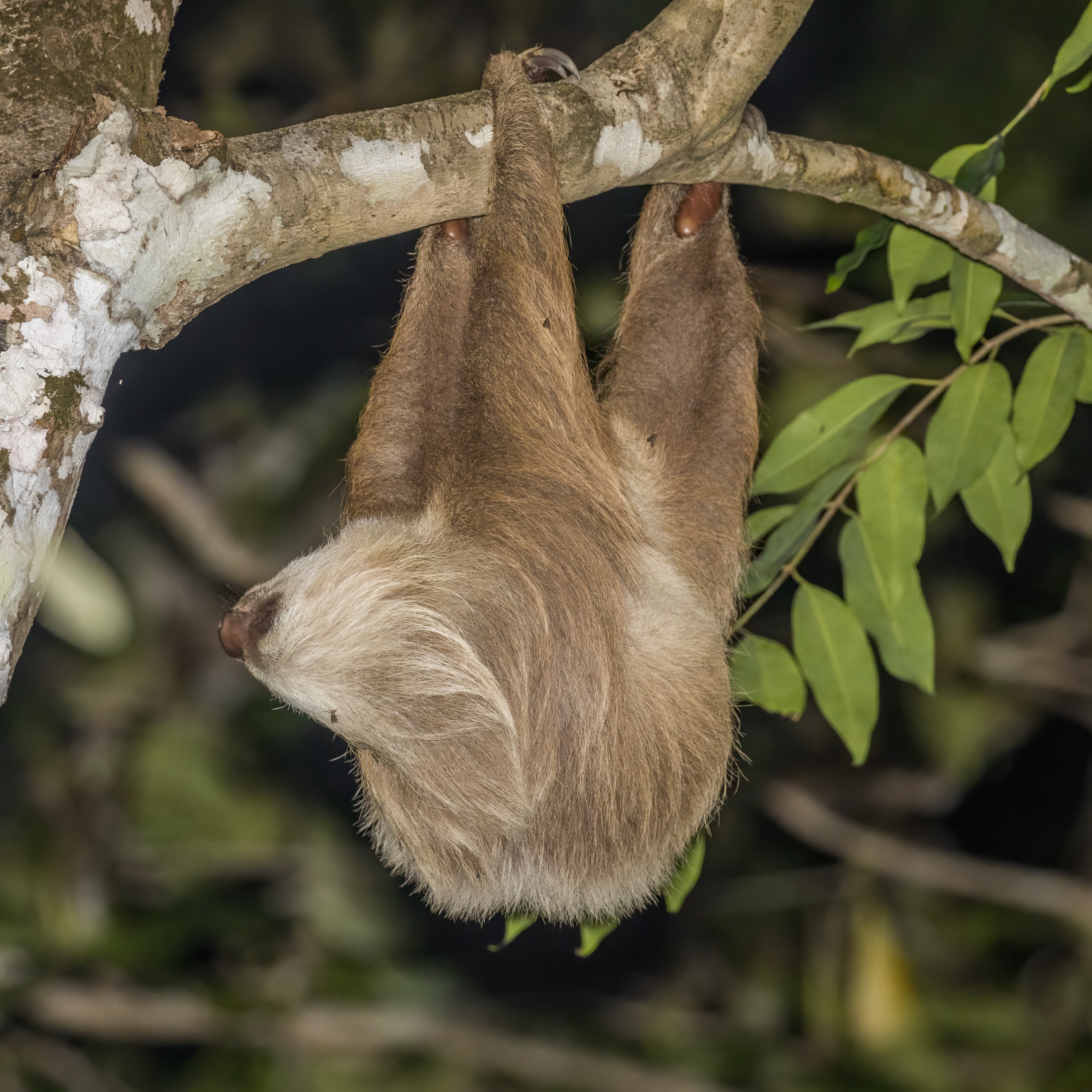 Hoffmann's two-toed sloth (Choloepus hoffmanni) male, Gamboa, Panama